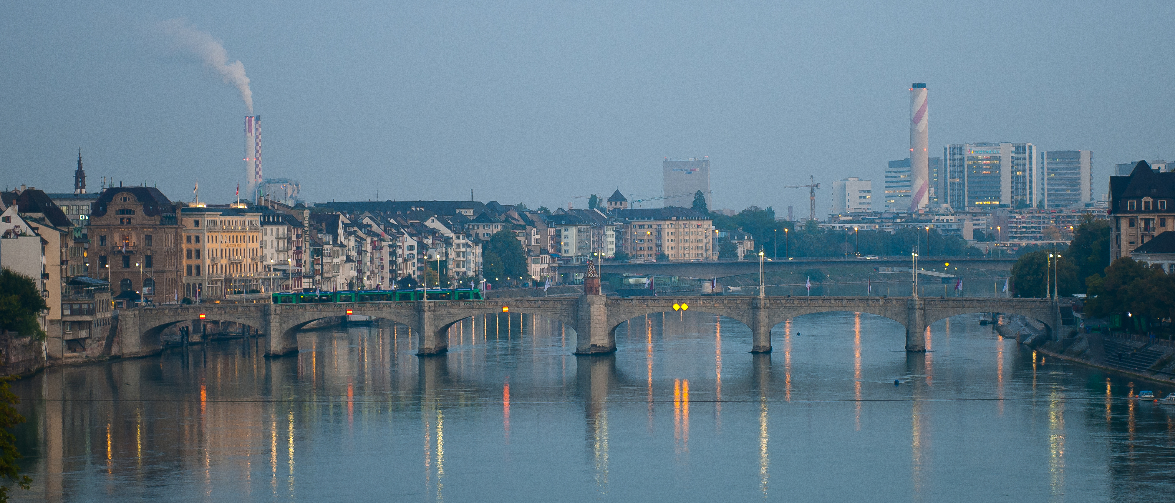 Mittlere Bruecke seen from Wettsteinbruecke